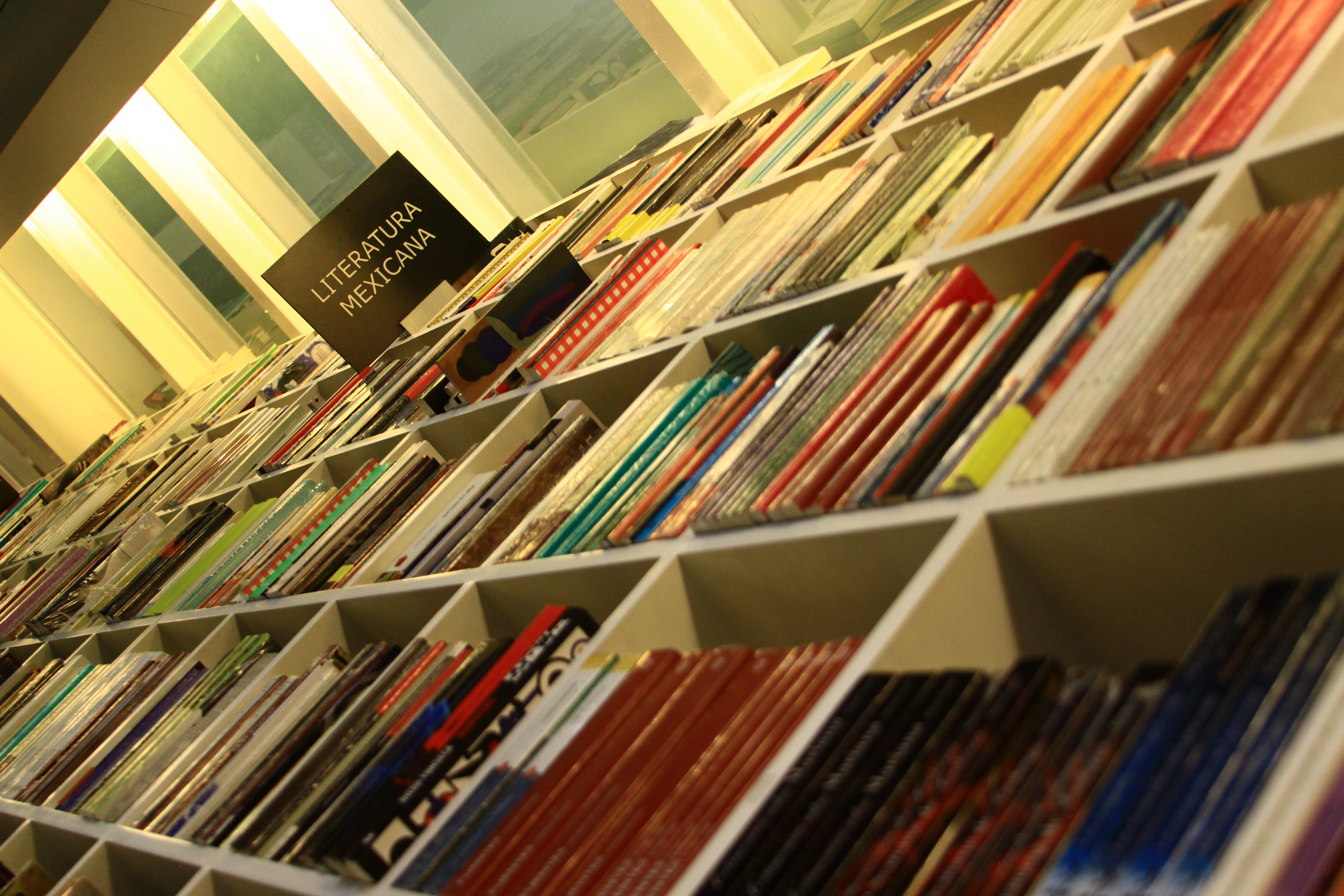 Tilted low view of the book rack of Mexican literature of the Economic Culture Fond library inside the 'Bella Época' Cultural Centre in La Condesa neighborhood, Mexico City, Mexico.